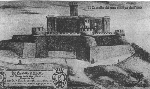 Old stamp